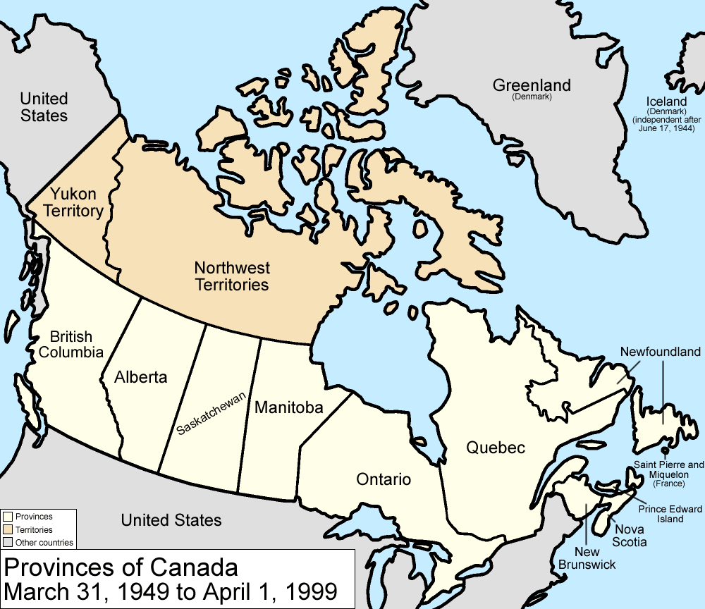 Map of the provinces and territories of Canada as they were between 1949 and 1999. On March 31 1949, Newfoundland joined Canada. On April 1 1999, Nunavut was split from Northwest Territories, giving us the map we have today. Made by User:Golbez.